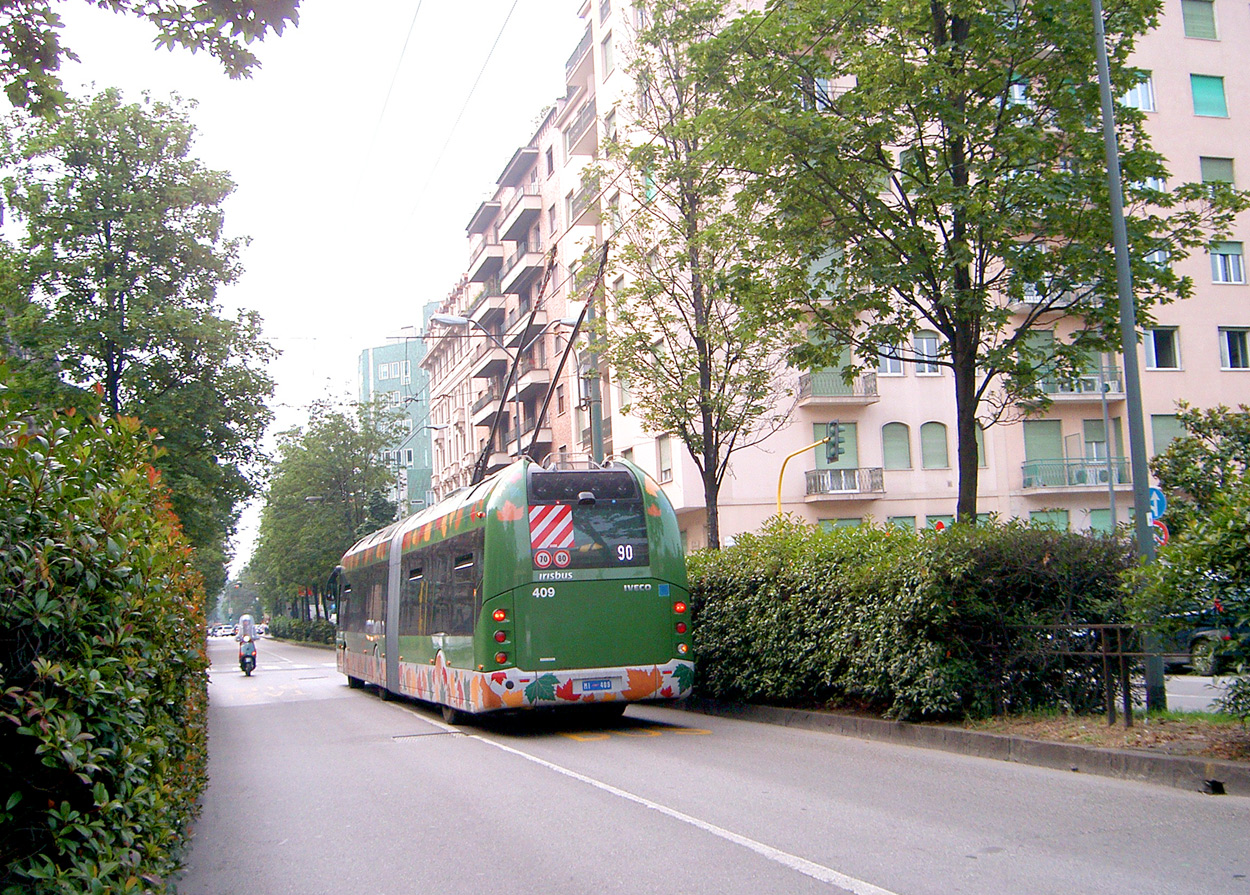 A rear view of the Milan, Italy, Cristalis trolleybus seen in image Milano-Cristalis1.jpg. It is operating on a priority carriageway dedicated to emergency vehicles, buses, taxis and cycles. Ordinary traffic uses the carriageways on either side of the hedges.